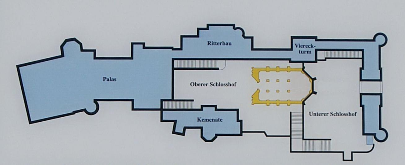 Castle Neuschwanstein at Schwangau, Bavaria, Germany.